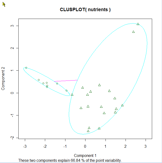 Clustering after PCA on nutrients dataset available on Koln university site ([2] with the help of Vincent Zoonekynd's guide on "Statistics with R" ([3])